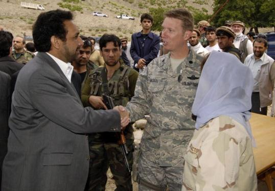 Ahmad Zia Massoud, Afghanistan's First Vice President and brother of famed Panjshir Martyr and Afghan national hero Ahmad Shah Massoud, shaking hands with U.S. Air Force Lt. Col. Russell T. Kaskel, Panjshir Provincial Reconstruction Team Commander, at a groundbreaking ceremony for the new 6 million dollar Barak to Khenj road in Barak, Bazarak District, Panjshir Province of Afghanistan.